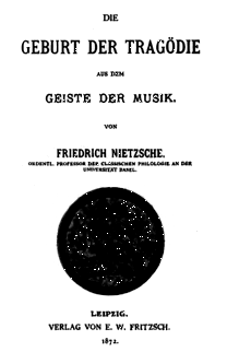 Primera edición del nacimiento de la tragedia.